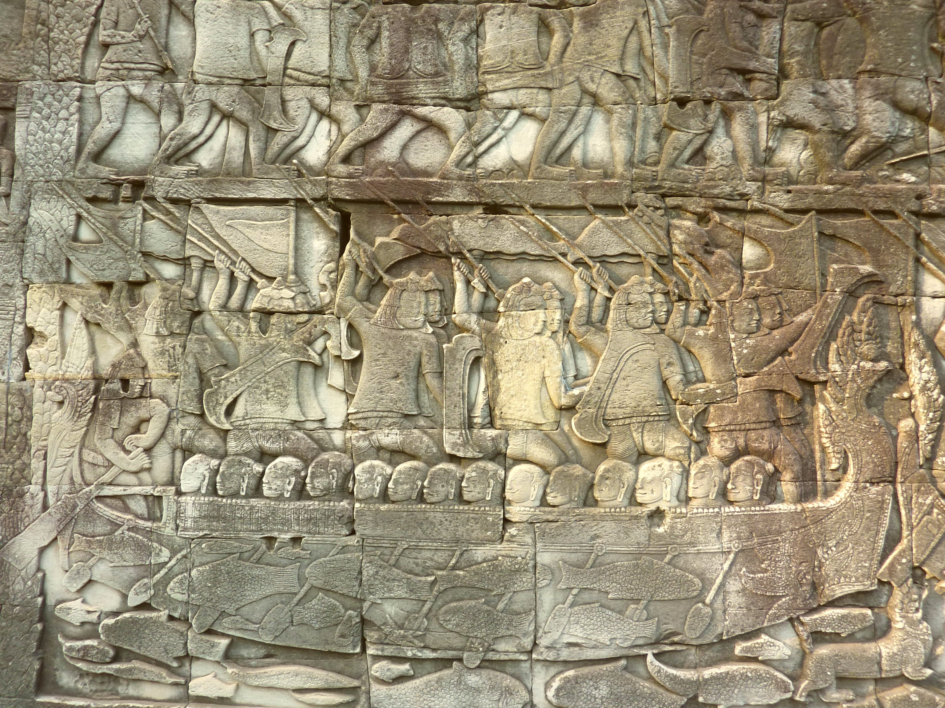 032 Battle Scenes at Bayon Photograph from the Bayon Temple at Angkor in Cambodia taken by Anandajoti.